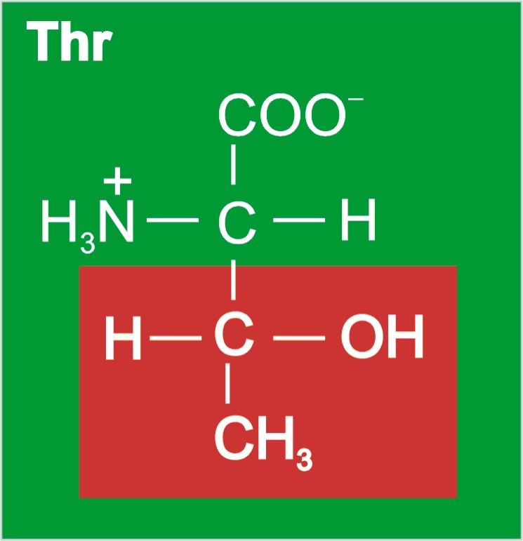 threonine amino acid formula jpg